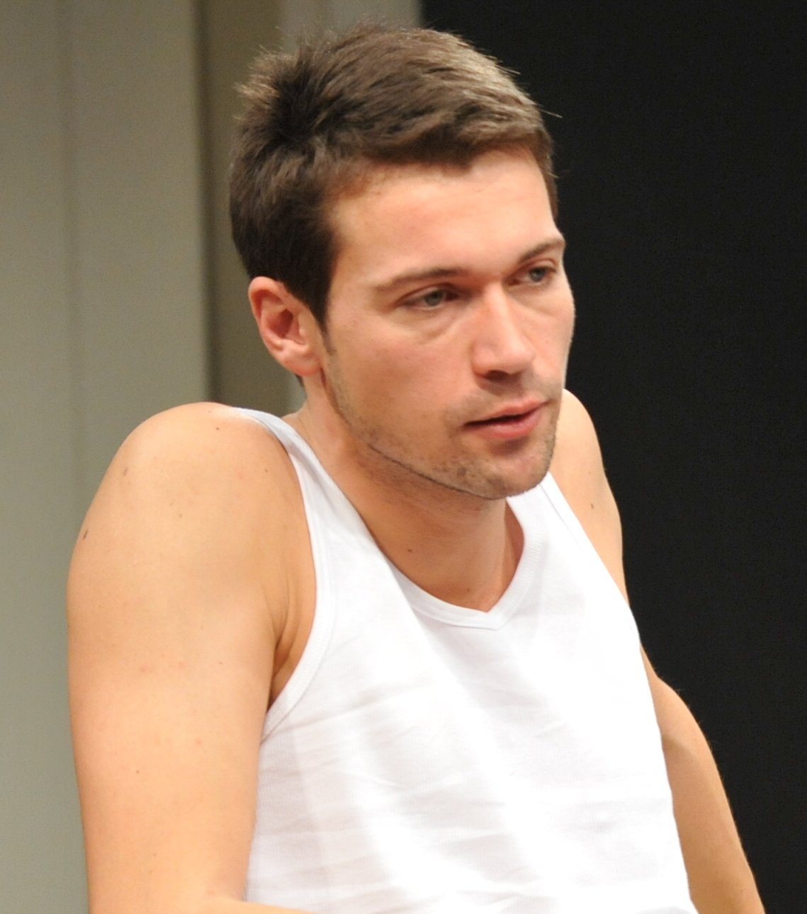 Lukáš Hejlík